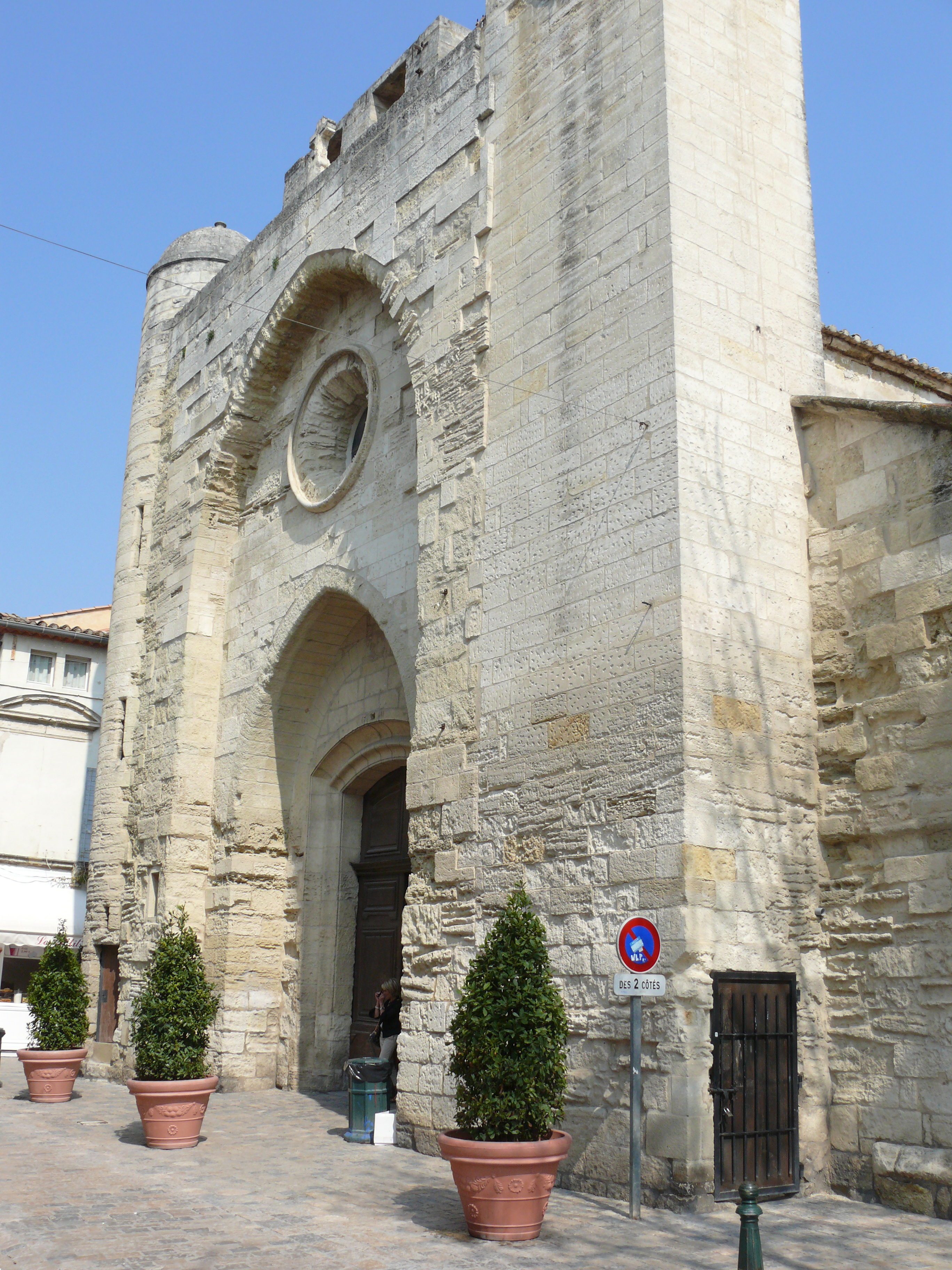 The church of Notre-Dame-des-Sablons, situated at the Place St-Louis, in Aigues-Mortes. The Notre-Dame is a typical gothic church. The glass stained windows are by Claude Viallat.